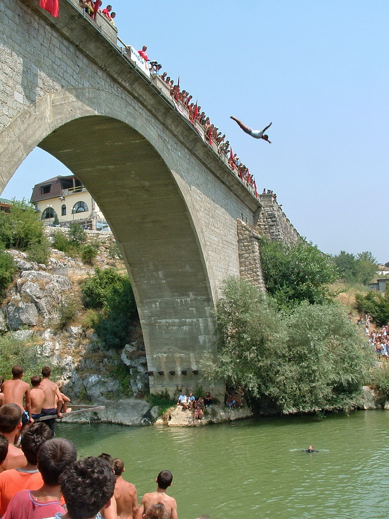 Sports - Jumping from Bridge